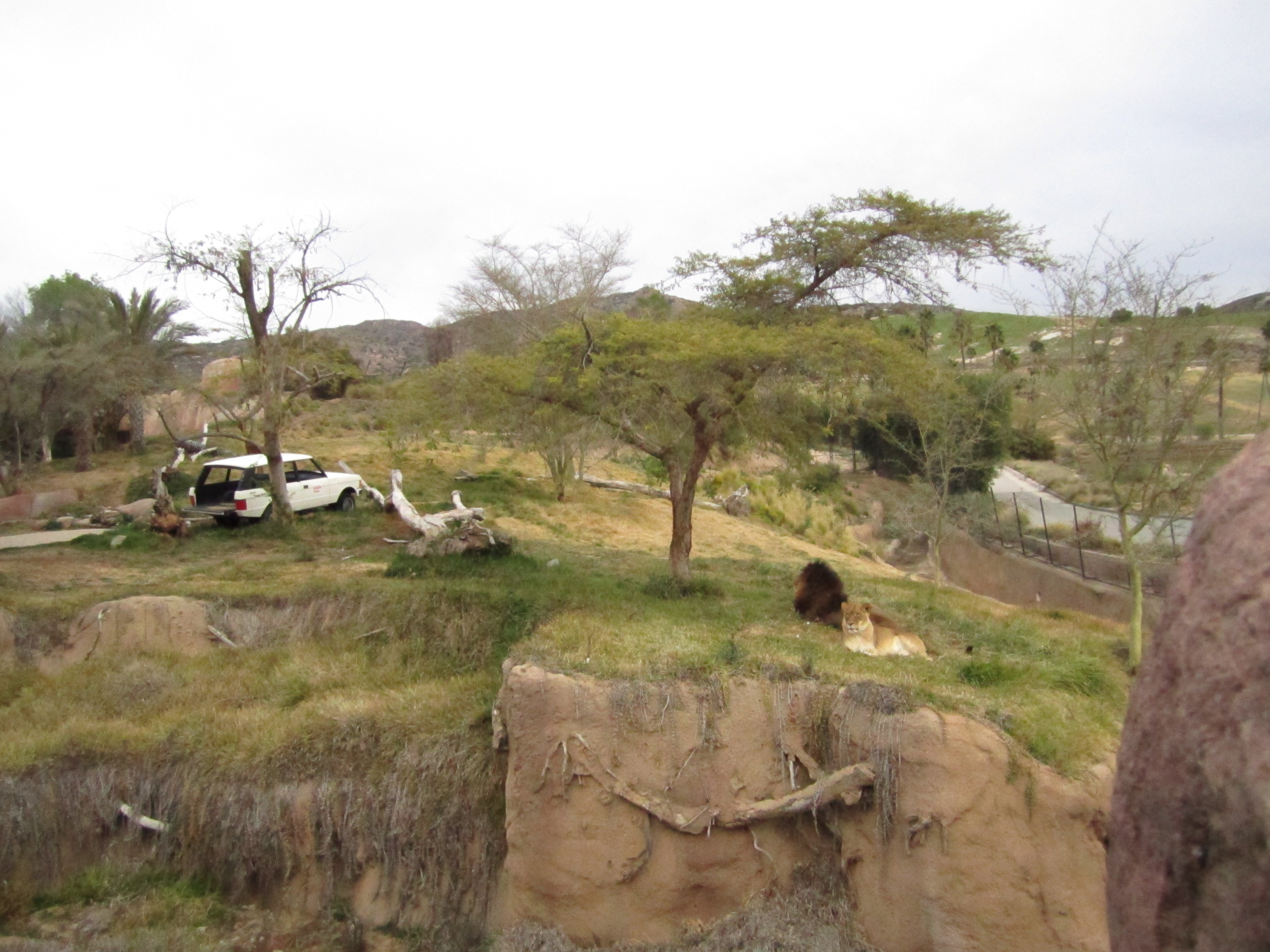 Lion exhibit from across a gorge with a land rover on the left, trees in the center, and sleeping lions on the right